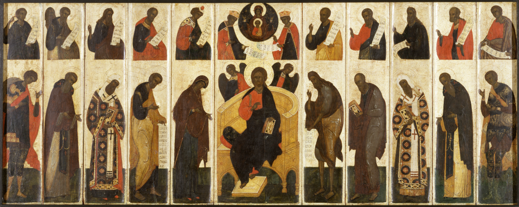 These panels reproduce the upper two tiers of the screen (known as the iconostasis) that separates the nave from the altar in Orthodox churches. Such sets, of which this is one of the earliest known, were used by priests for makeshift altars and by lay people for personal prayer. In the upper row, the Virgin and Child are surrounded by Old Testament prophets who hold scrolls with passages foretelling Christ's birth: Habakkuk (?), Micah, Jeremiah, Moses, Daniel, David, Solomon, Jonah, Jacob, Isaiah (?), Gedeon, and Zechariah. Below, the adult Christ is seated on the throne of judgment, flanked by holy persons who entreat him to forgive our sins. On his right are the Virgin, St. Peter, Metropolitan Peter of Moscow, St. Sergius of Radonezh (a famous Russian hermit), and St. George. On his left stand John the Baptist, St. Paul, Metropolitan Alexis of Moscow, St. Cyril of Belozersk (another renowned Russian monk), and St. Demetrius.